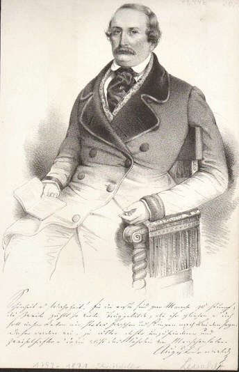 August Lewald (1792-1871), deutscher Schriftsteller und Journalist